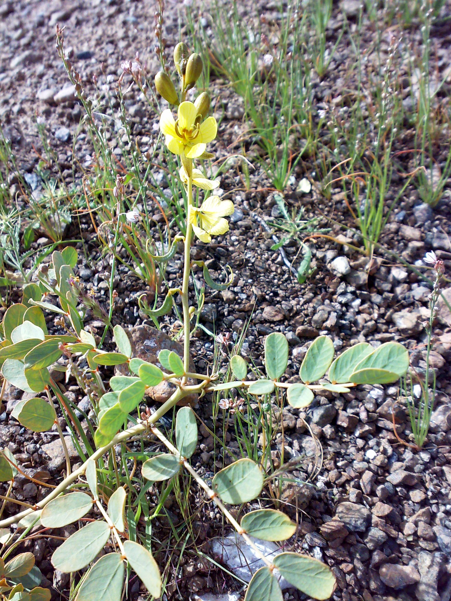 Senna italica in the semi-desert north of Fujeirah City, Indian Ocean coast, United Arab Emirates.